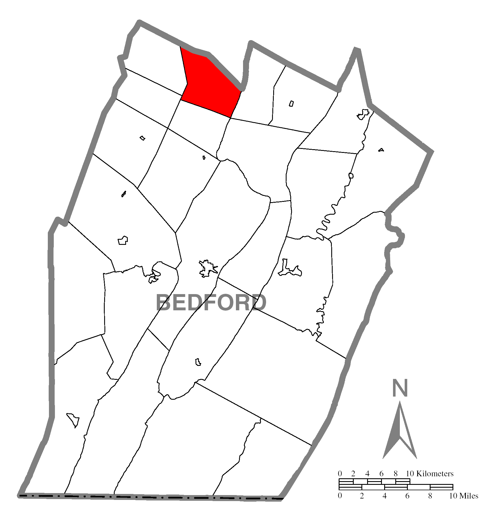 A map of Bedford County showing Kimmel Township, Pennsylvania (alternate) highlighted on the map.